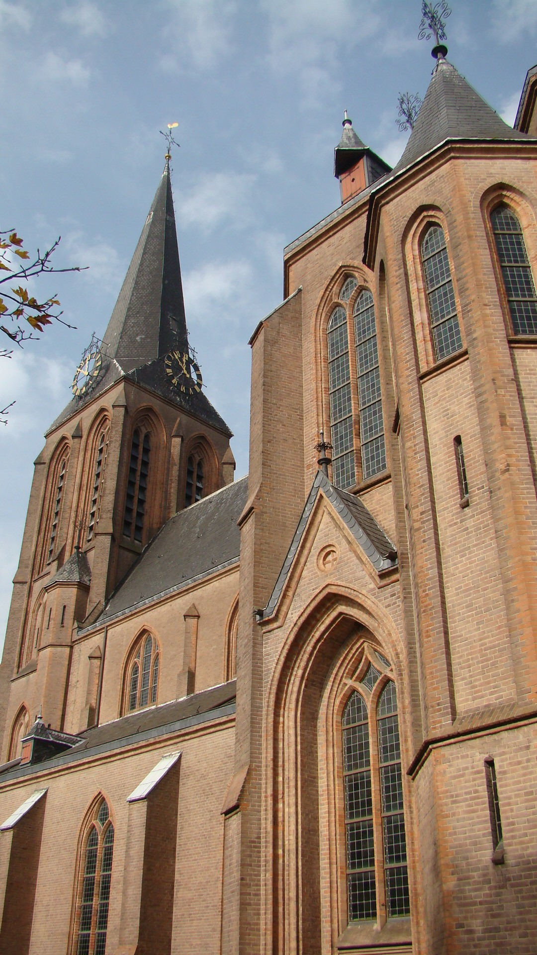 Church designed by Afred Tepe in Abcoude